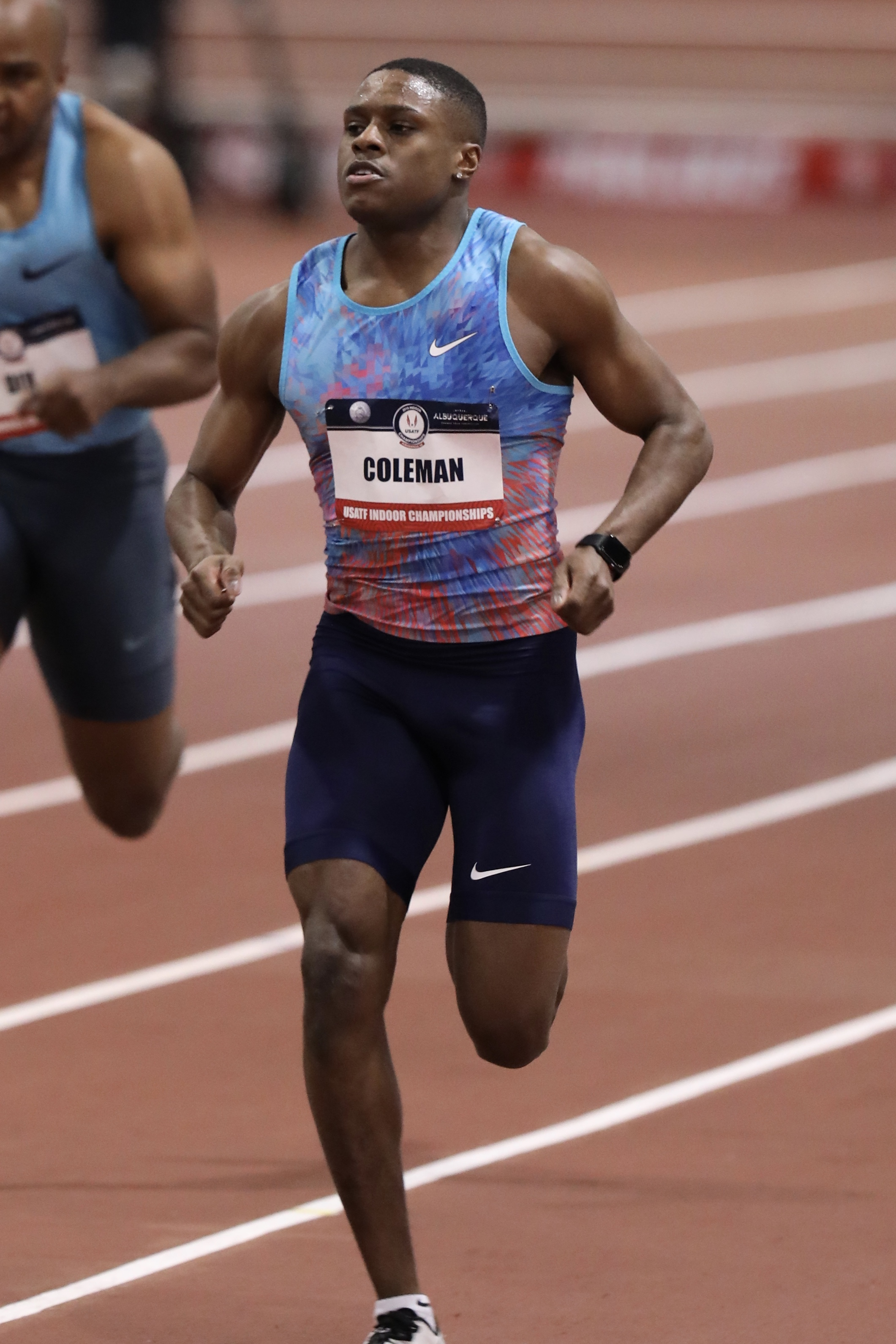 2018 USA Indoor Track and Field Championships